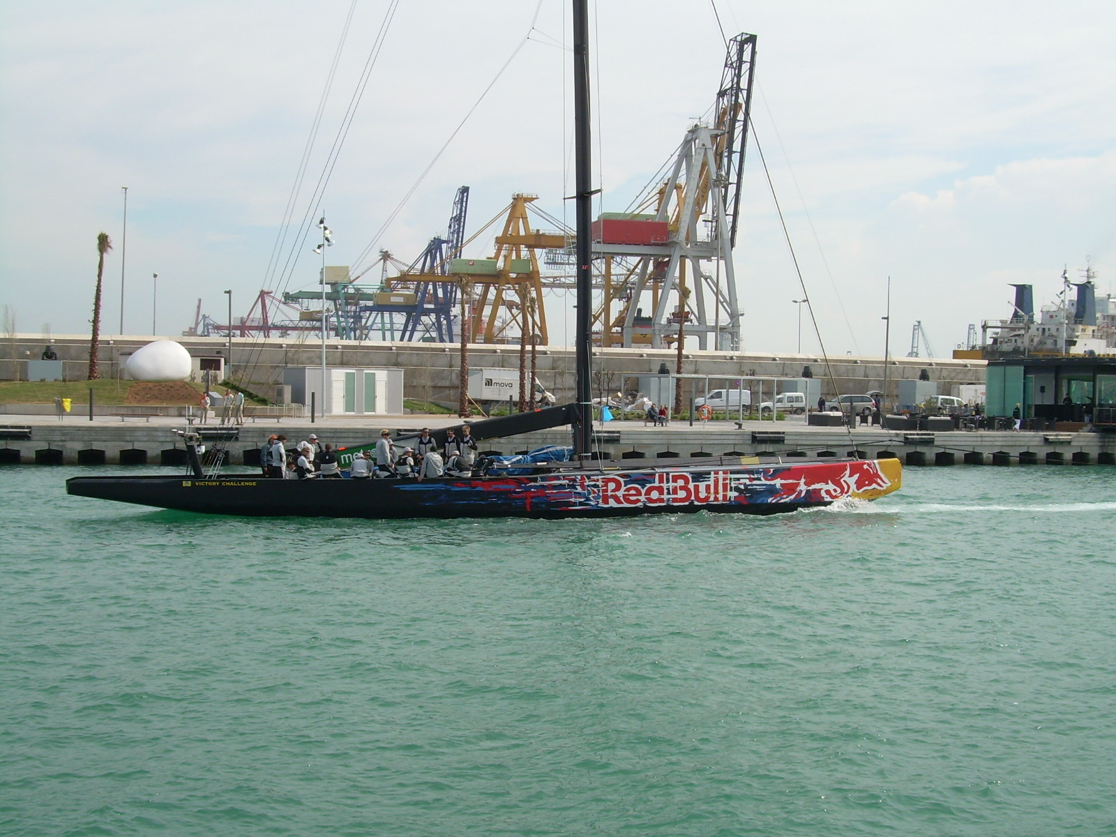 Victory Challenge sailing team in the 2006-07 America's Cup. Valencia, Spain.